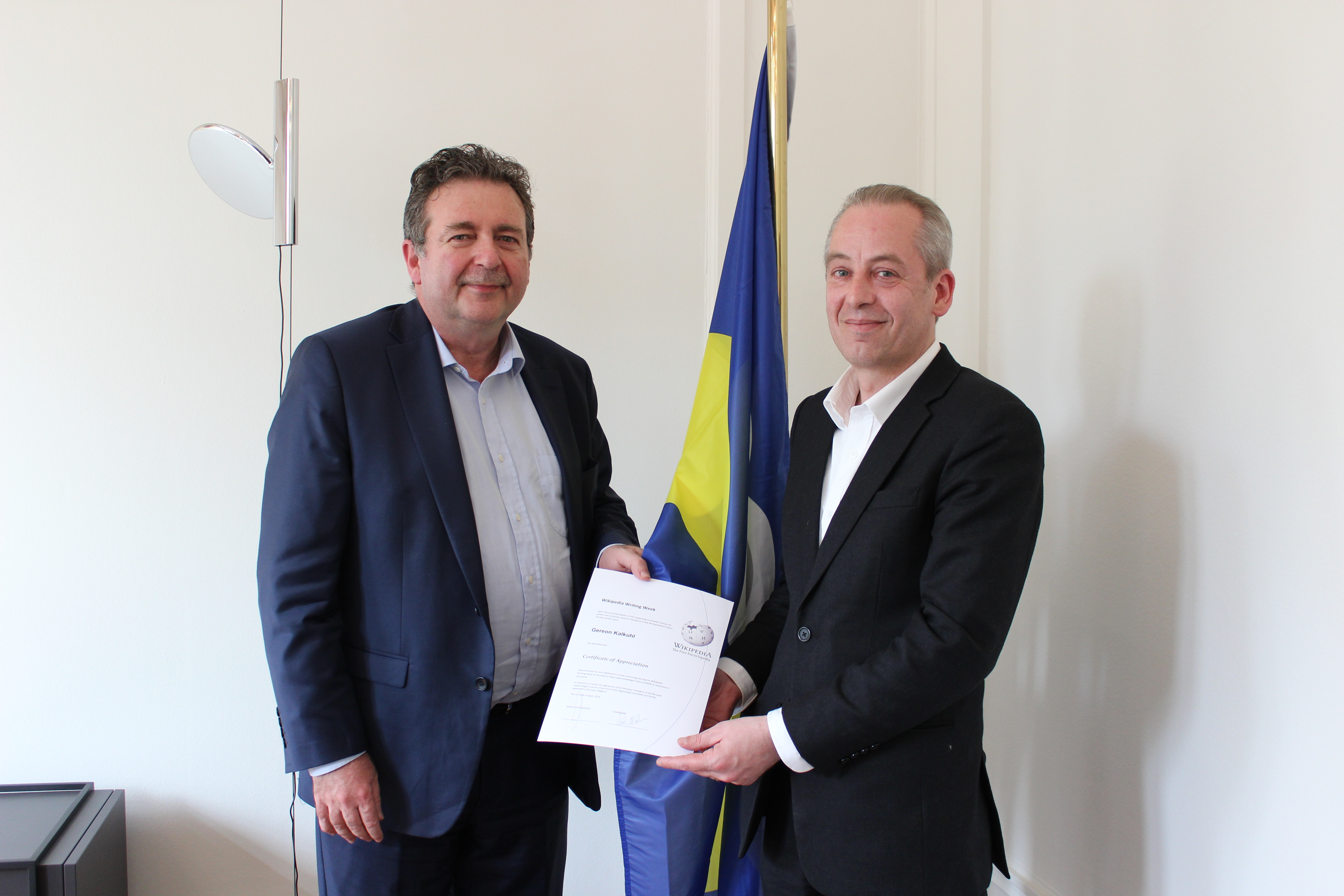 Gereon Kalkuhl receives a signed certificate of appreciation from Rudi Vervoort, Minister-President of the Brussels Capital Region, after Wikipedia Writing Week Brussels.